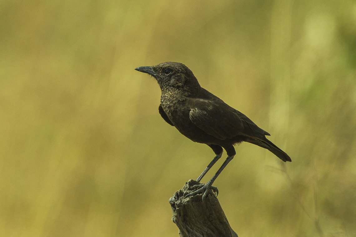 Northern Anteater Chat - Kenya_S4E5989